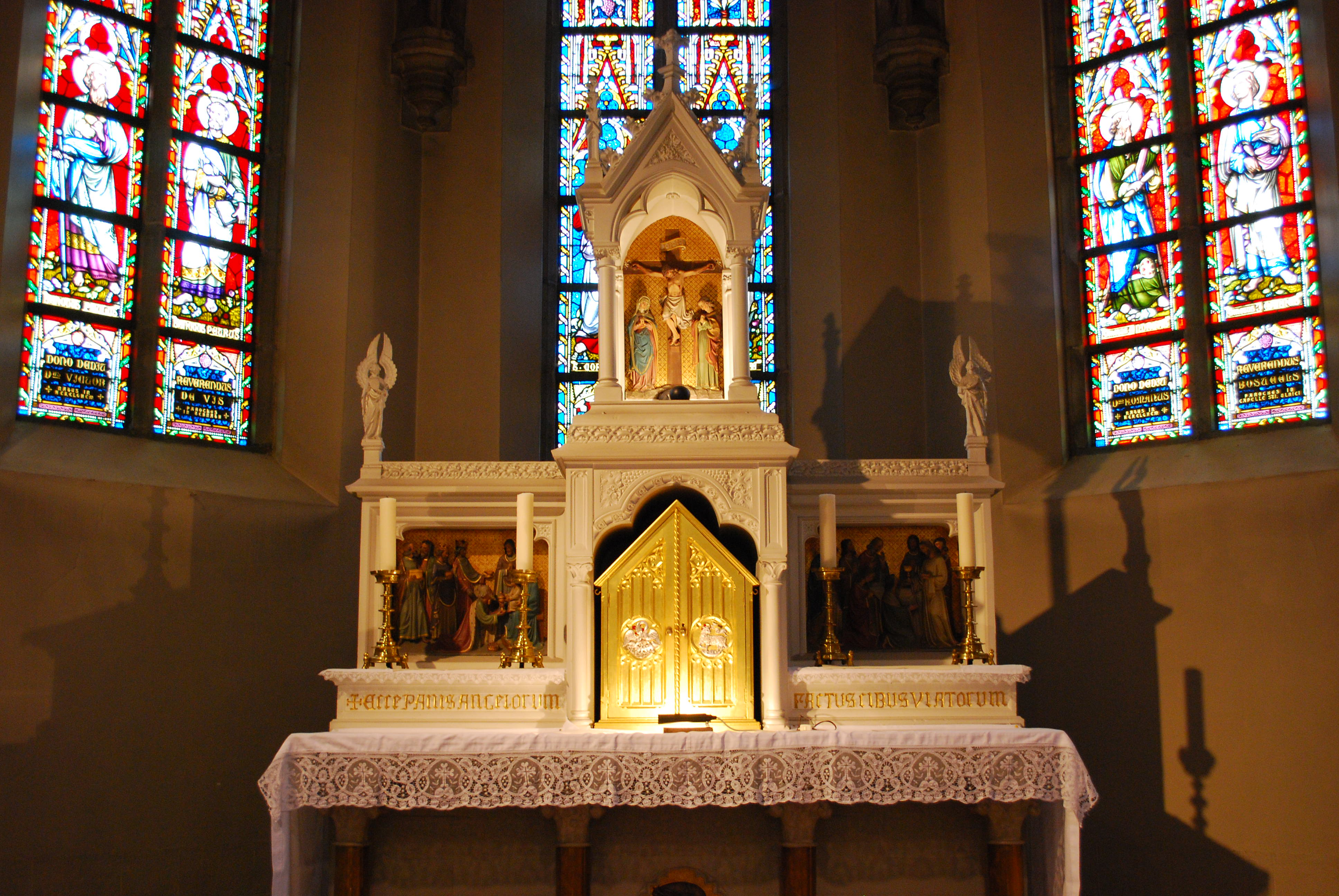 Interior of Saint Michael's church at the village of Hekelgem, commune of Affligem, Belgium. Tabernacle. The inscription says "Ecce panis angelorum factus cibus viatorum" (Behold the bread of angels, made into food of the travellers; from "Lauda Sion"). Nikon D60 f=28mm f/4.5 at 1/15s ISO 800. Postprocessed using Nikon ViewNX 1.0.3 and/or Adobe Photoshop 4.0.